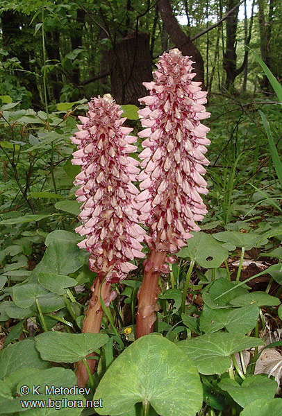 General view of parasitic plant and Balcan endemic Lathraea rhodopea